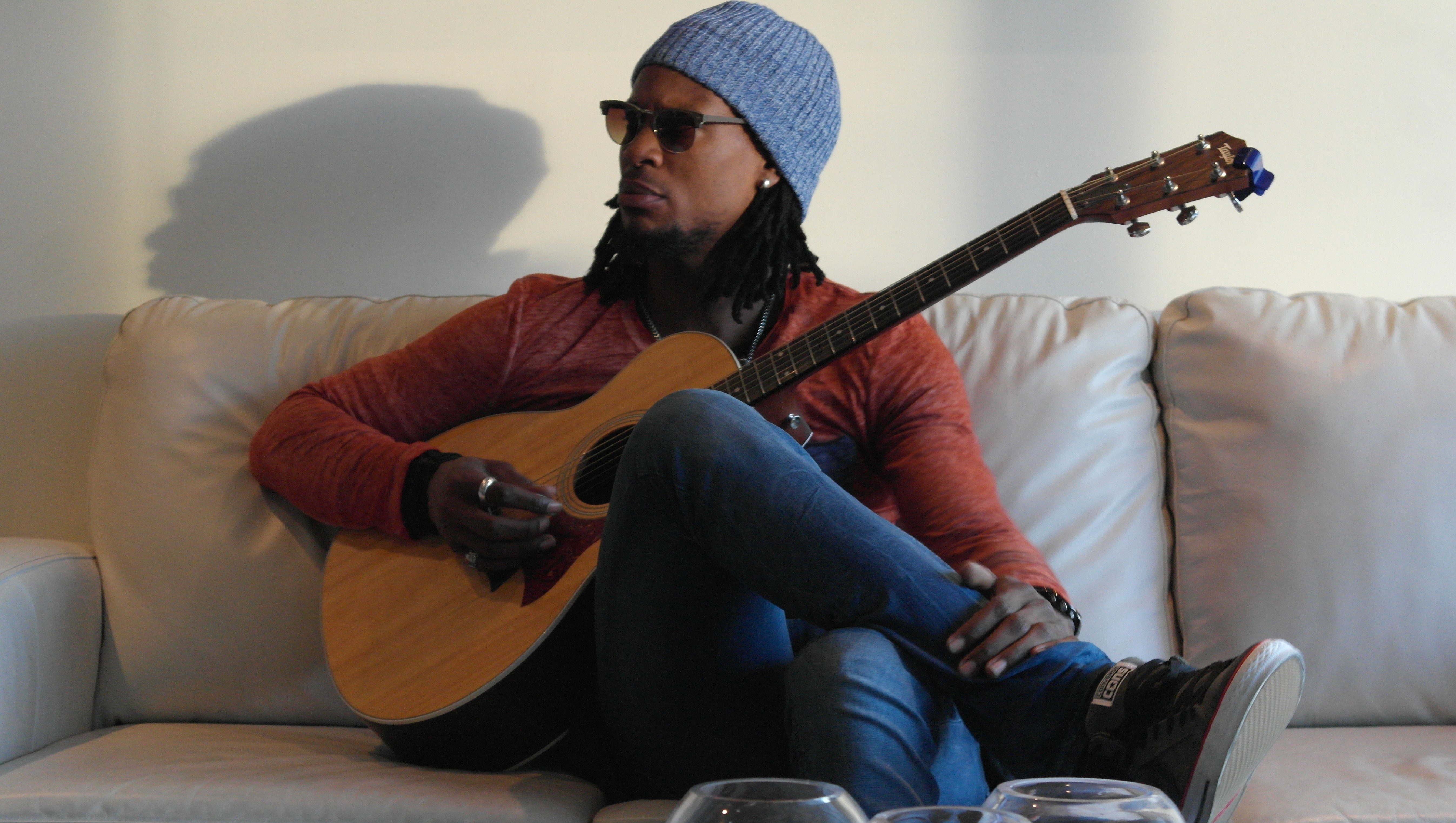 Reflections